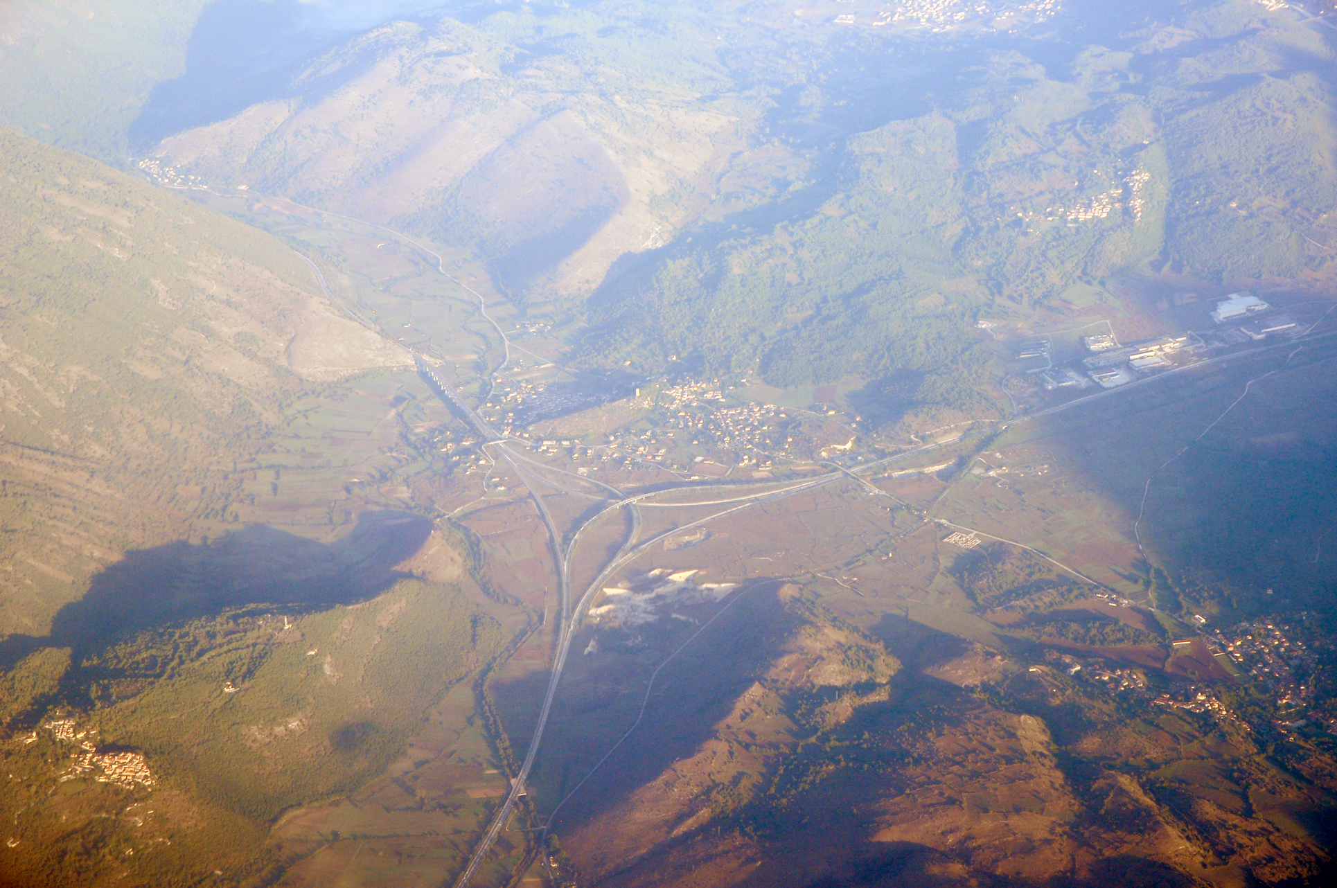 The village of Torano di Borgorose located near the junction between highways A24 and A25 in Lazio region of Italy.